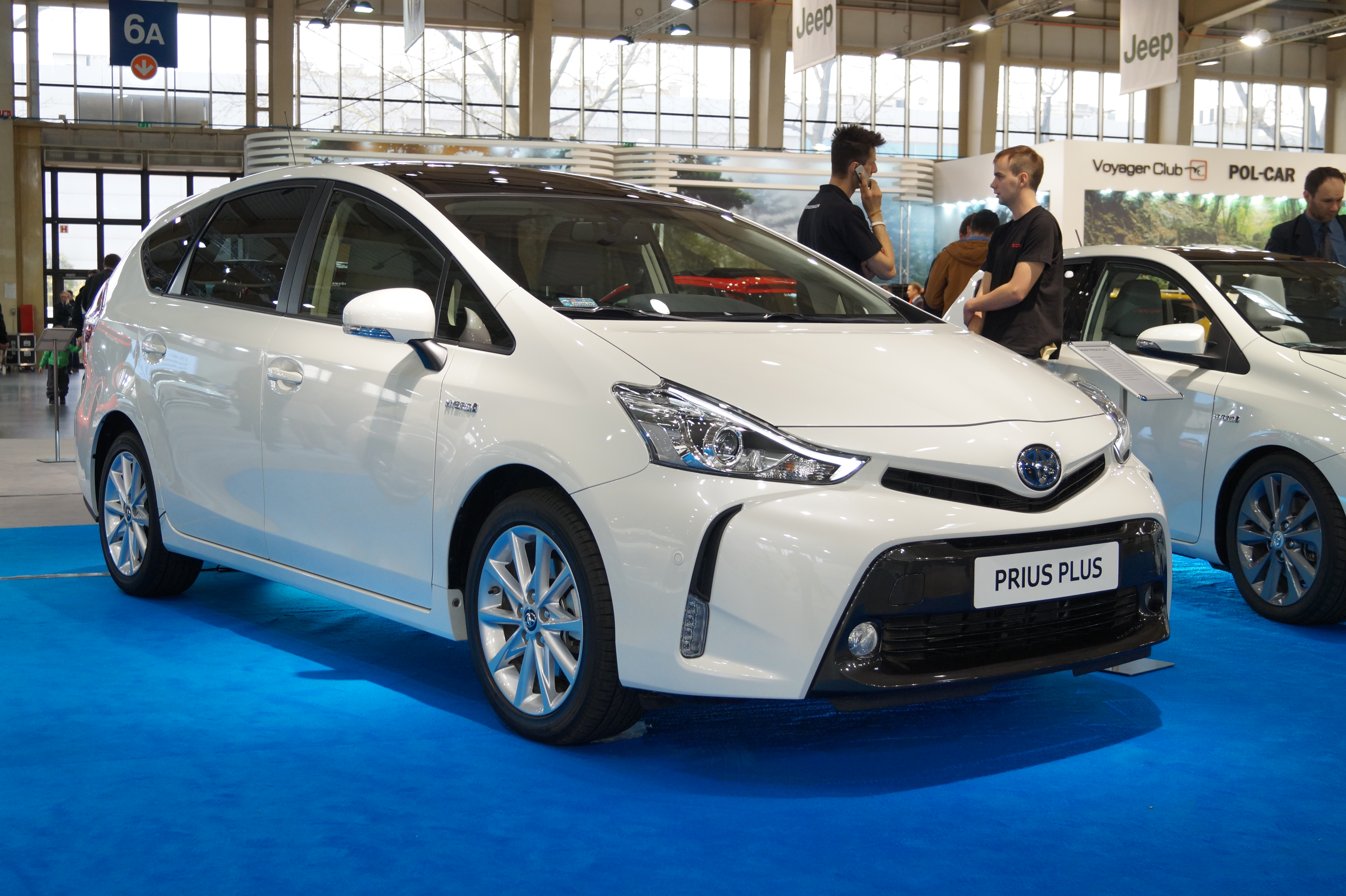 The making of this document was supported by Wikimedia Polska Association, within Wikigrant no. WG 2015-19. English | polski | +/− Toyota Prius Plus Hybrid na Motor Show Poznań 2015